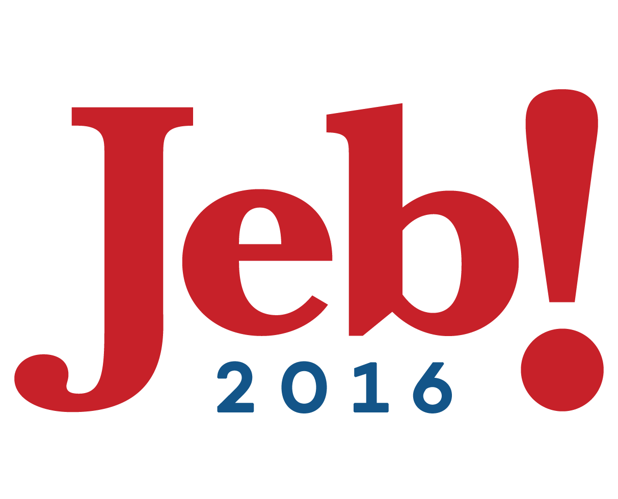 Campaign logo for Jeb Bush's 2016 Presidential campaign. Took original file from website, vectorized, made some tweaks afterward into PNG format